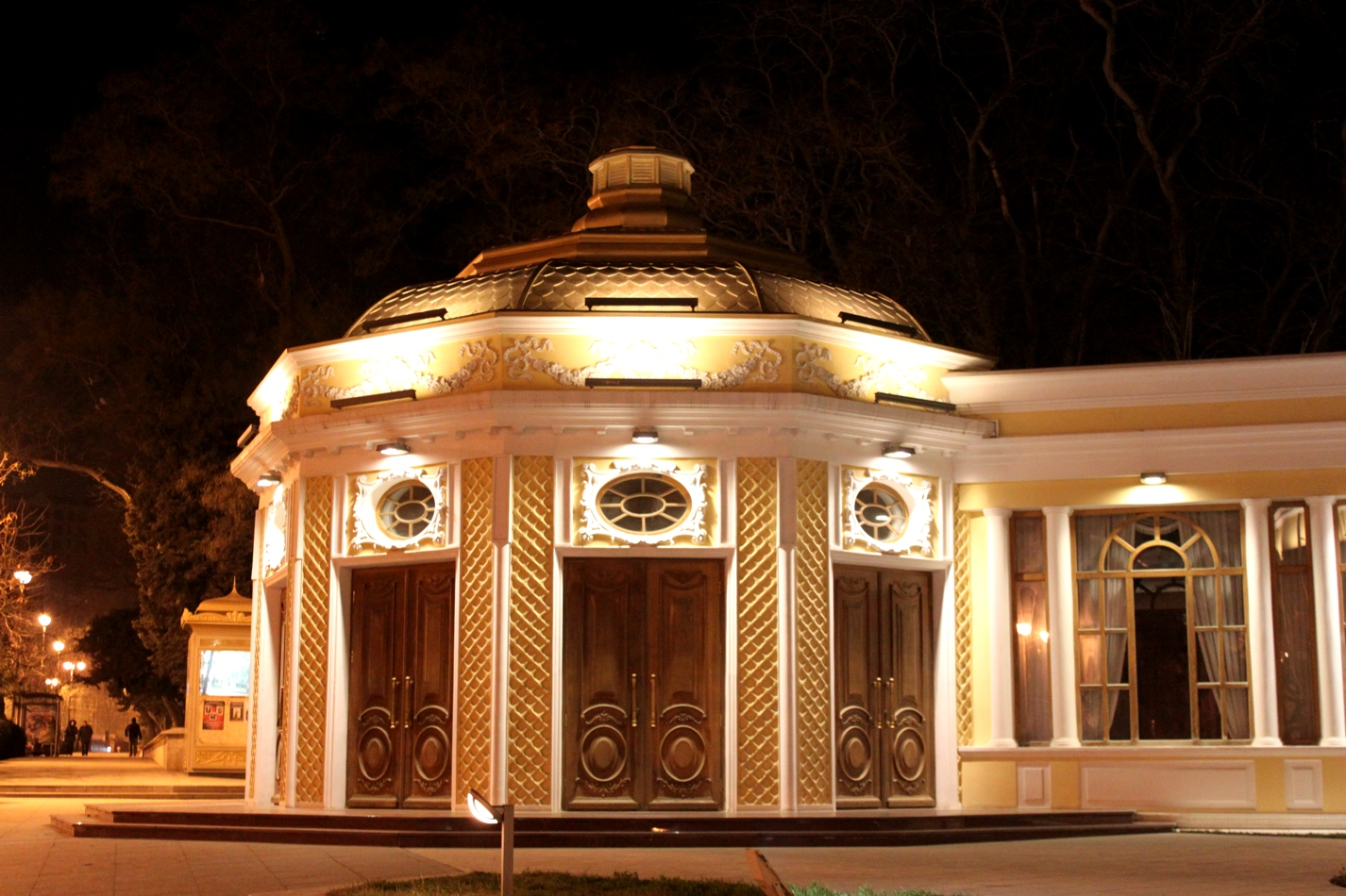 Baku Philarmonic Building